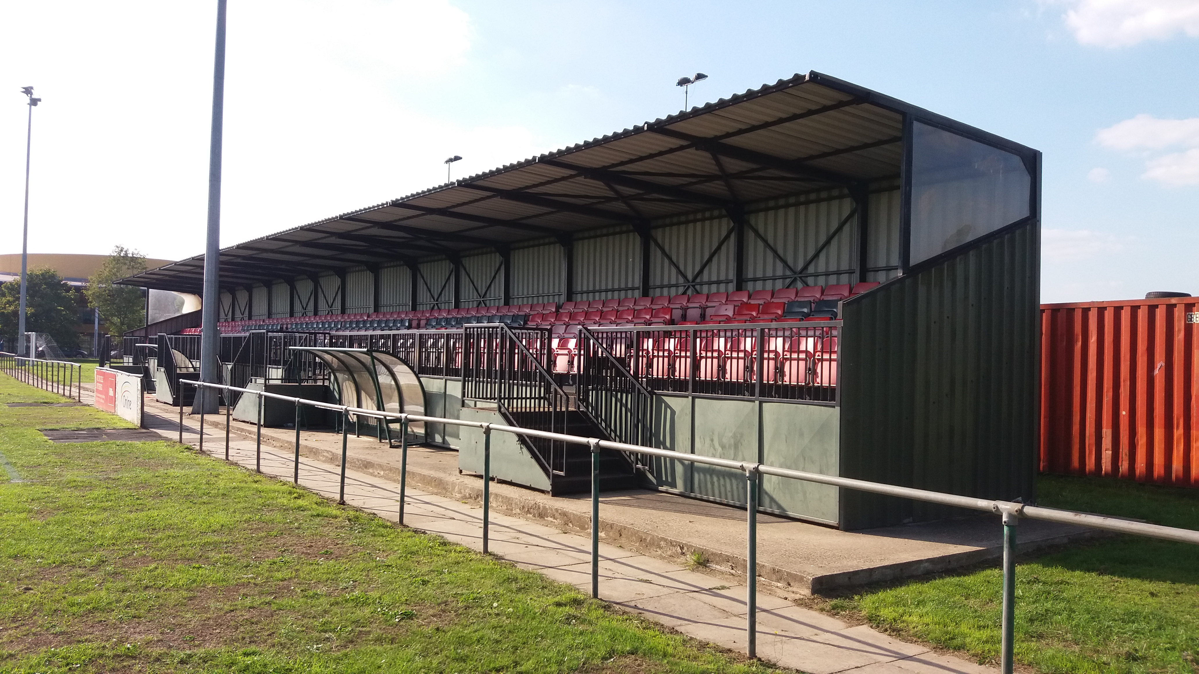 The main stand at Gore Street, the home ground of Barking RFC and May & Baker F.C.